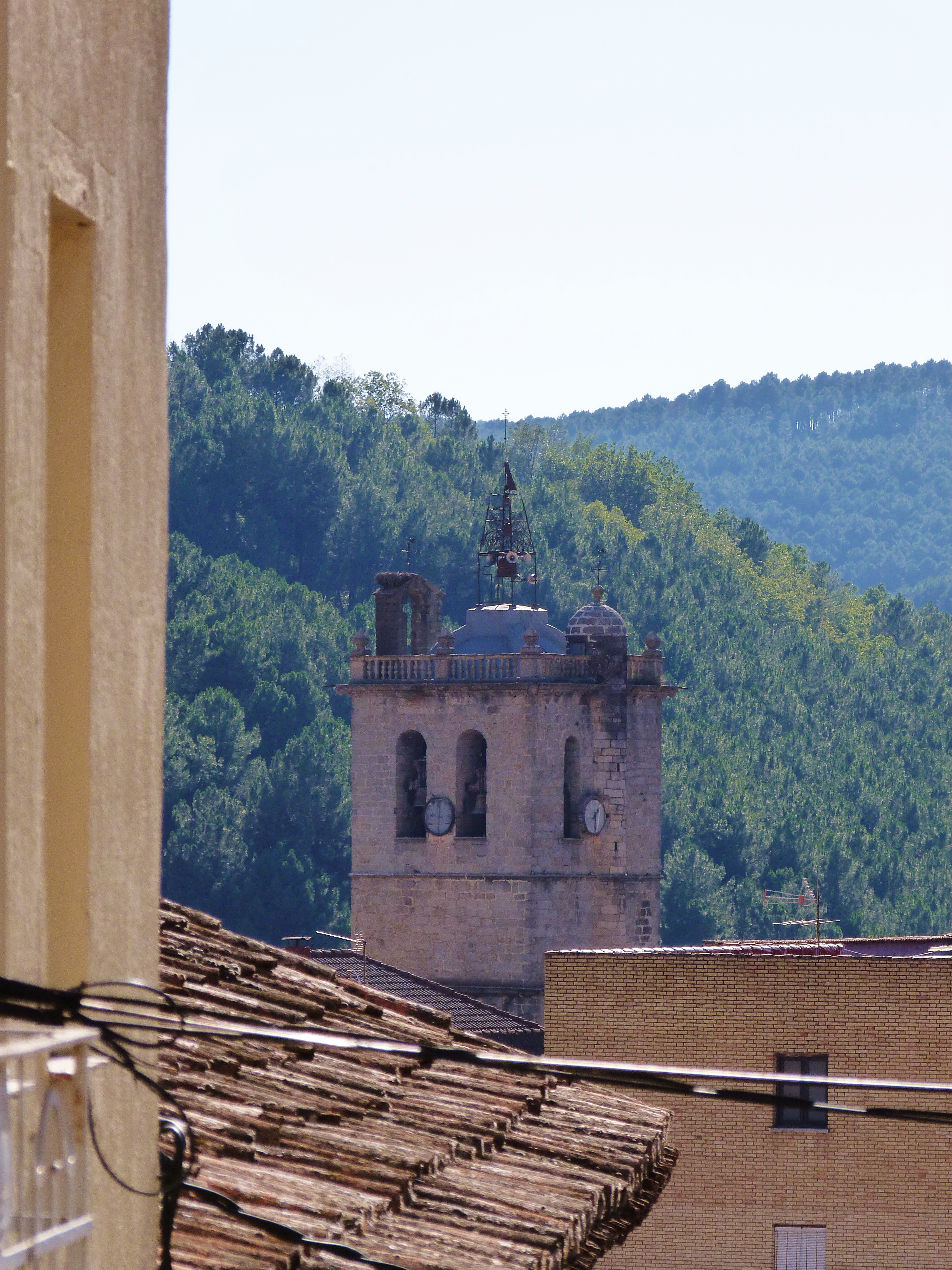 Church of Our Lady of the Assumption in Arenas de San Pedro